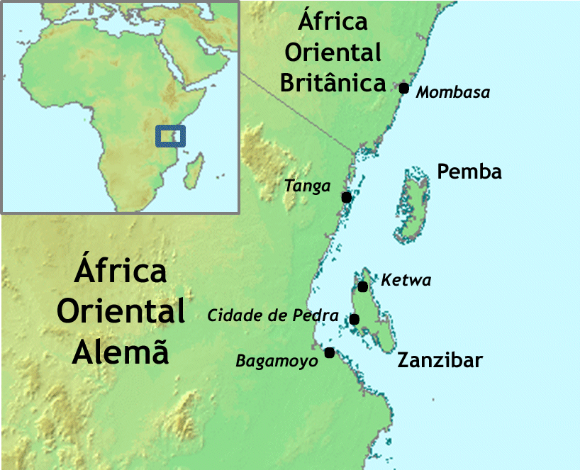 Portuguese version of a map showing Zanzibar Town's location in Zanzibar, and Zanzibar's location relative to Africa.